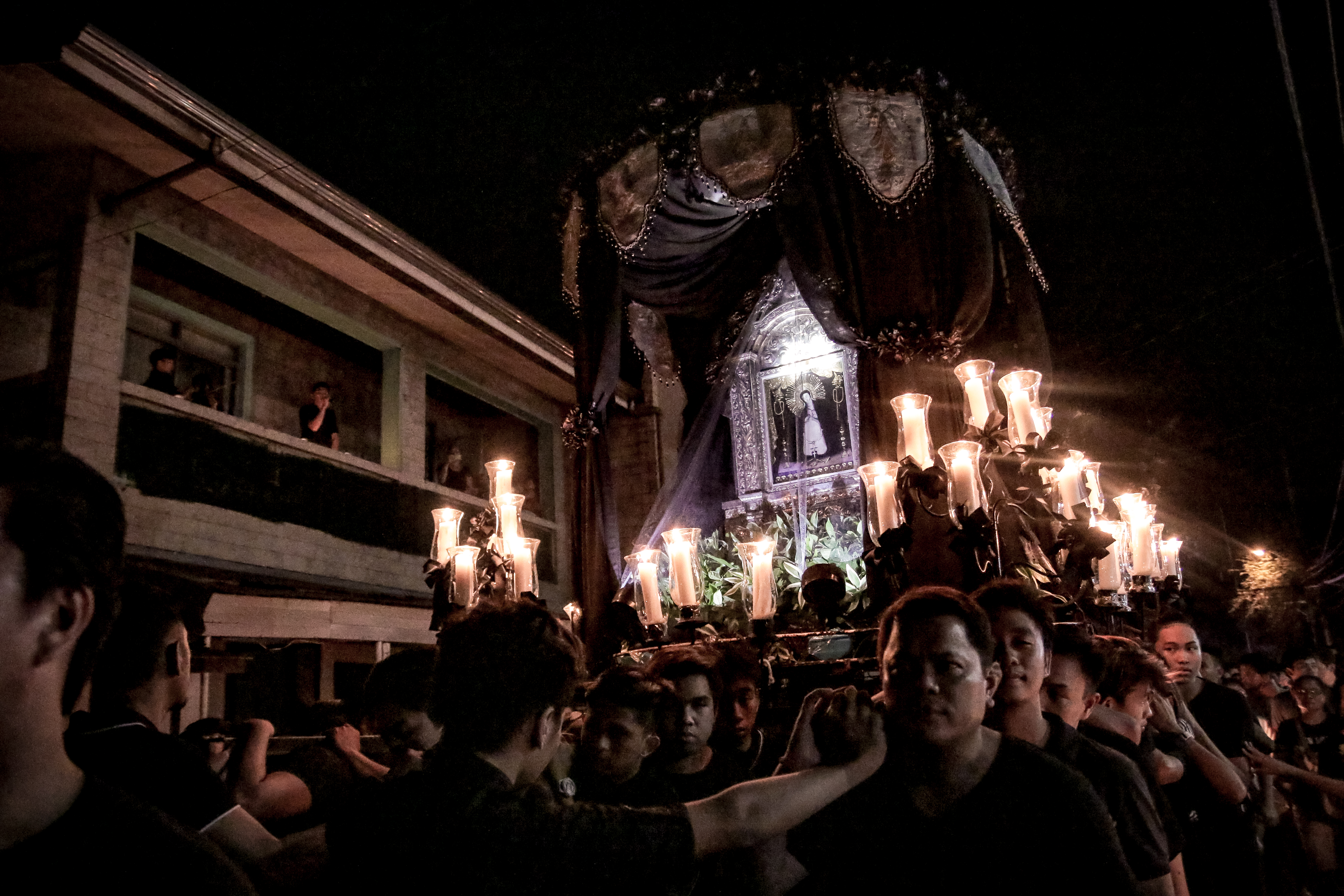 Procesión del Silencio 2016